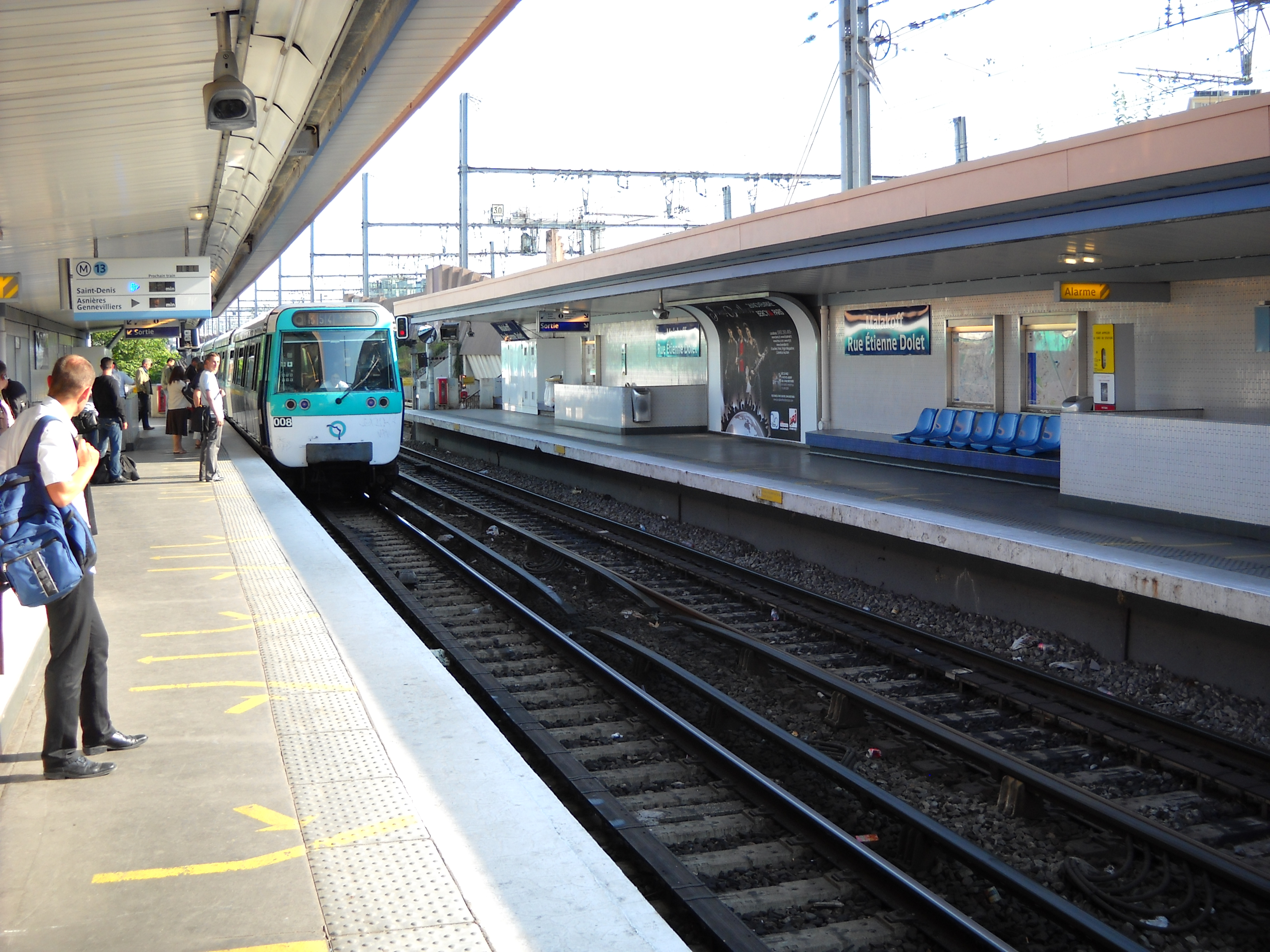 "Malakoff - Rue Étienne Dolet" station, on Paris Metro line 13.